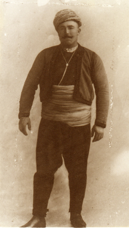 Depicted person: Yusuf İsmail – Turkish professional wrestler